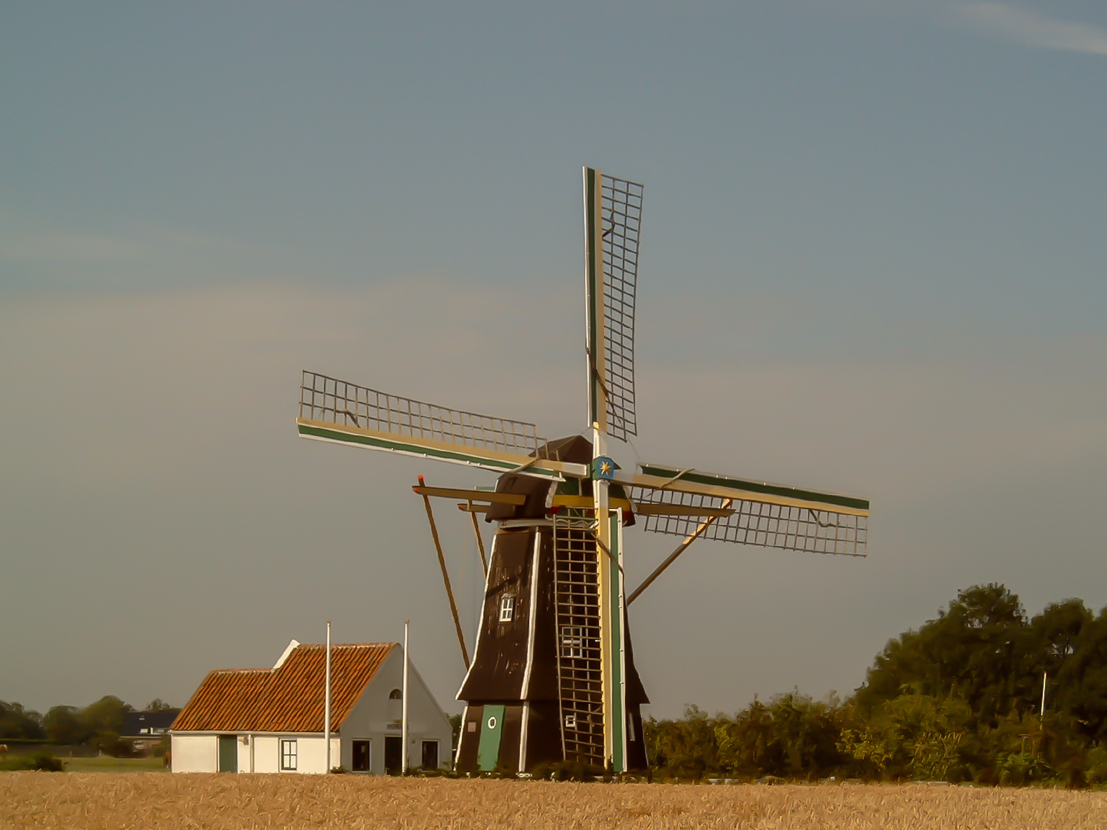 Aagtekerke, windmill